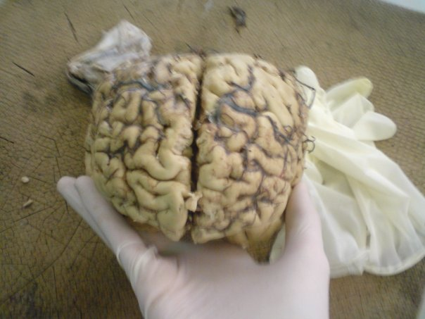 Cow brain prepared for dissection, 2010 as part of Psychology class, Universidad del Valle de Mexico